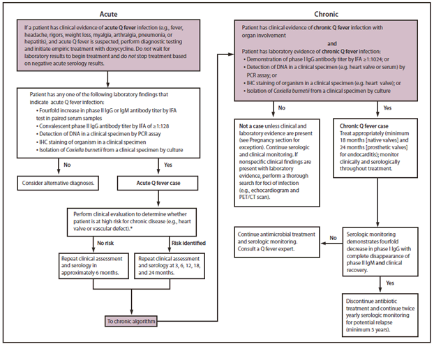 Q fever management diagram, from Morbidity and Mortality Weekly Report (MMWR)